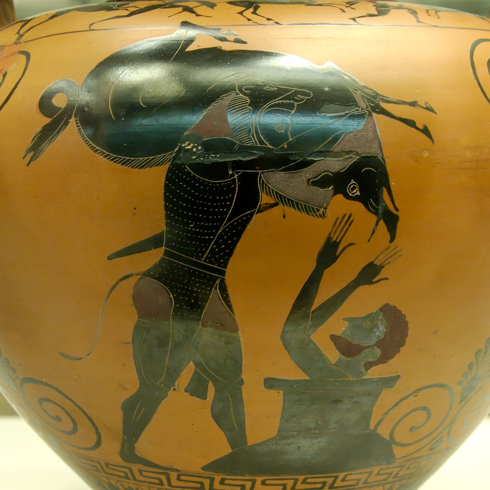 Herakles brings Eurytheus the Erymanthian boar. Attic black-figured amphora, ca. 550 BC. From Vulci.